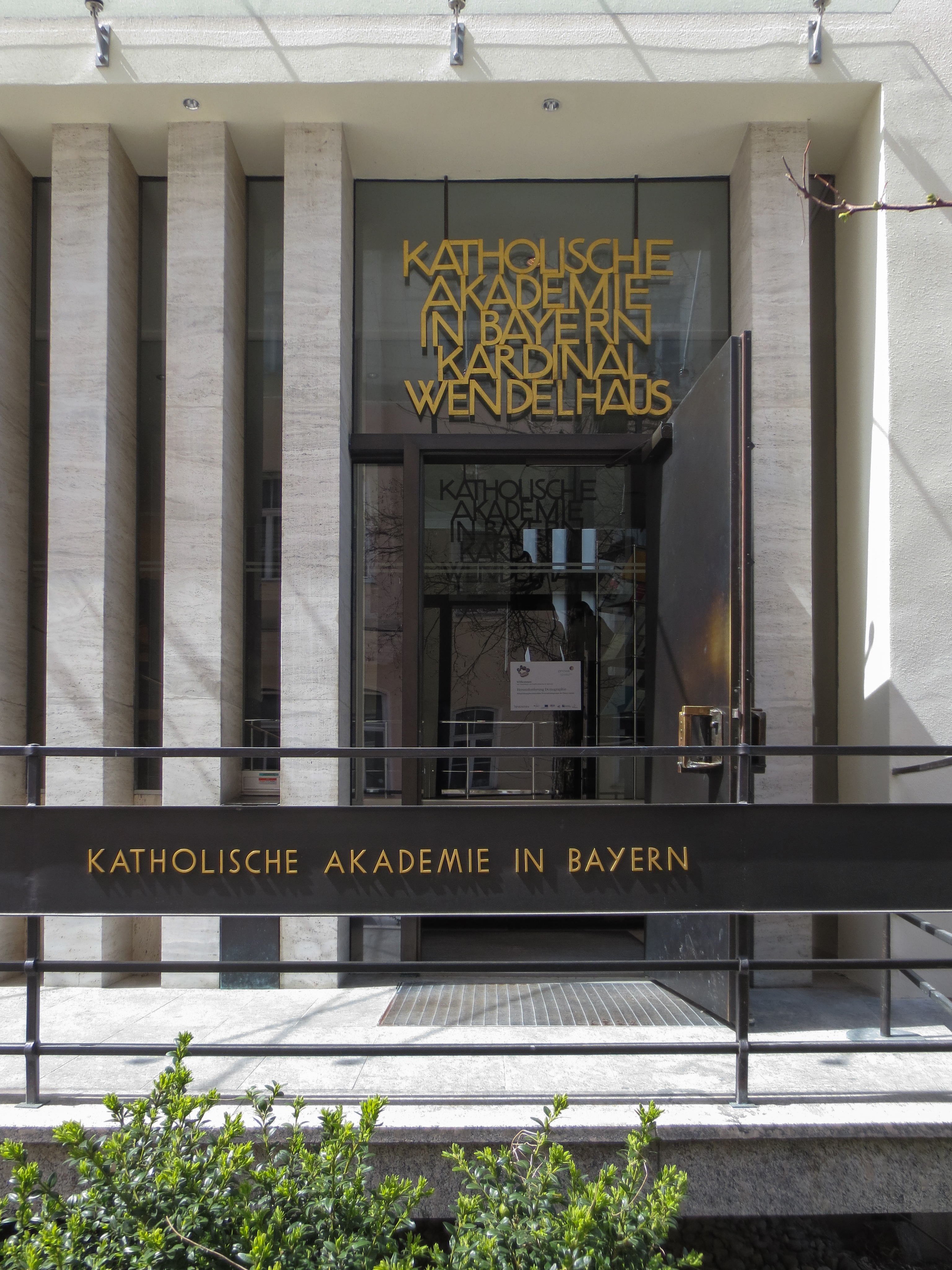 The Kardinal Wendel Haus of the catholic academy in bavaria.